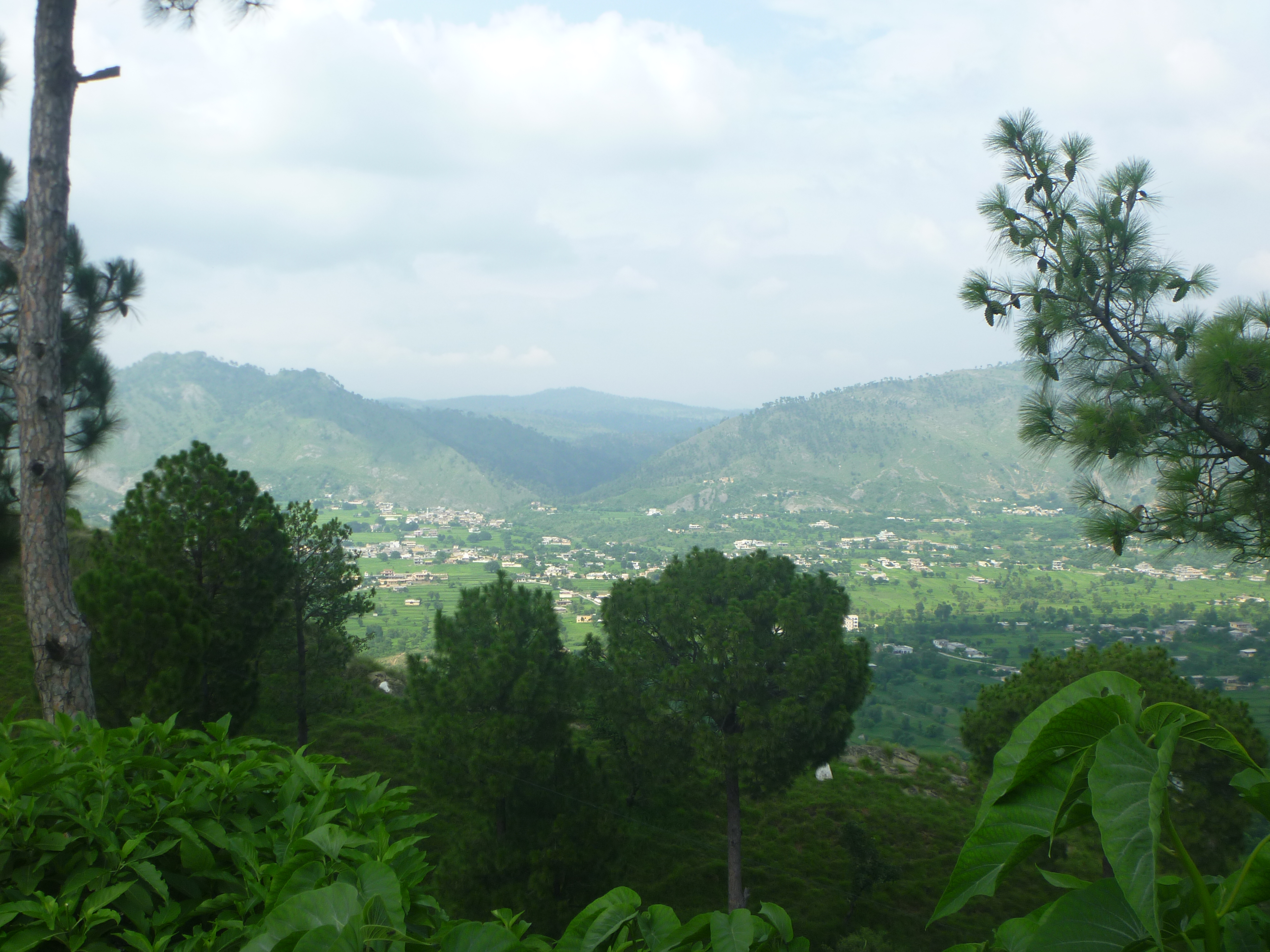 Picturesque view of Samahni Valley near Chauki